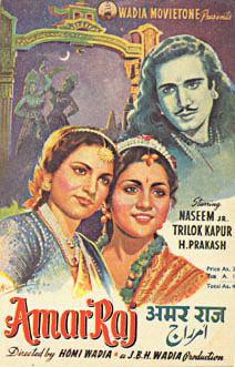 Hindi film poster for Amar Raj.